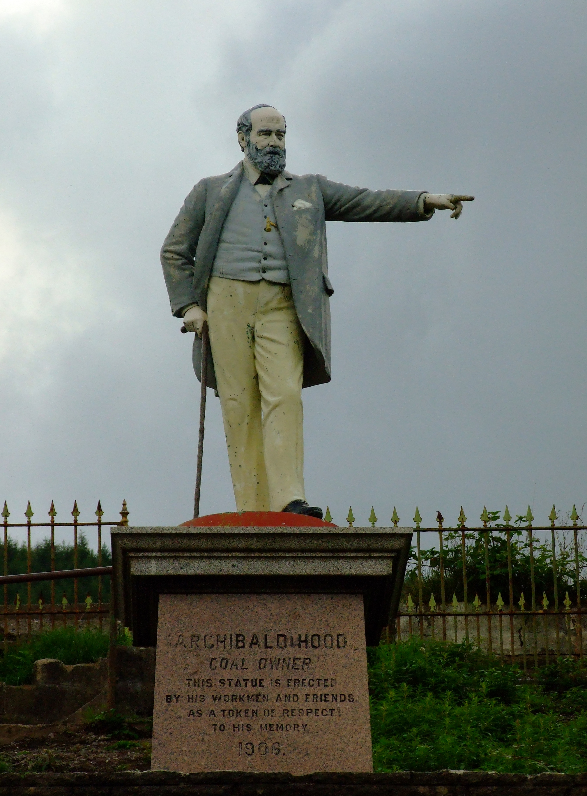 Statue of Archibald Hood owner of the "Scotch" Colliery in Llwynypia Rhondda S.Wales UK